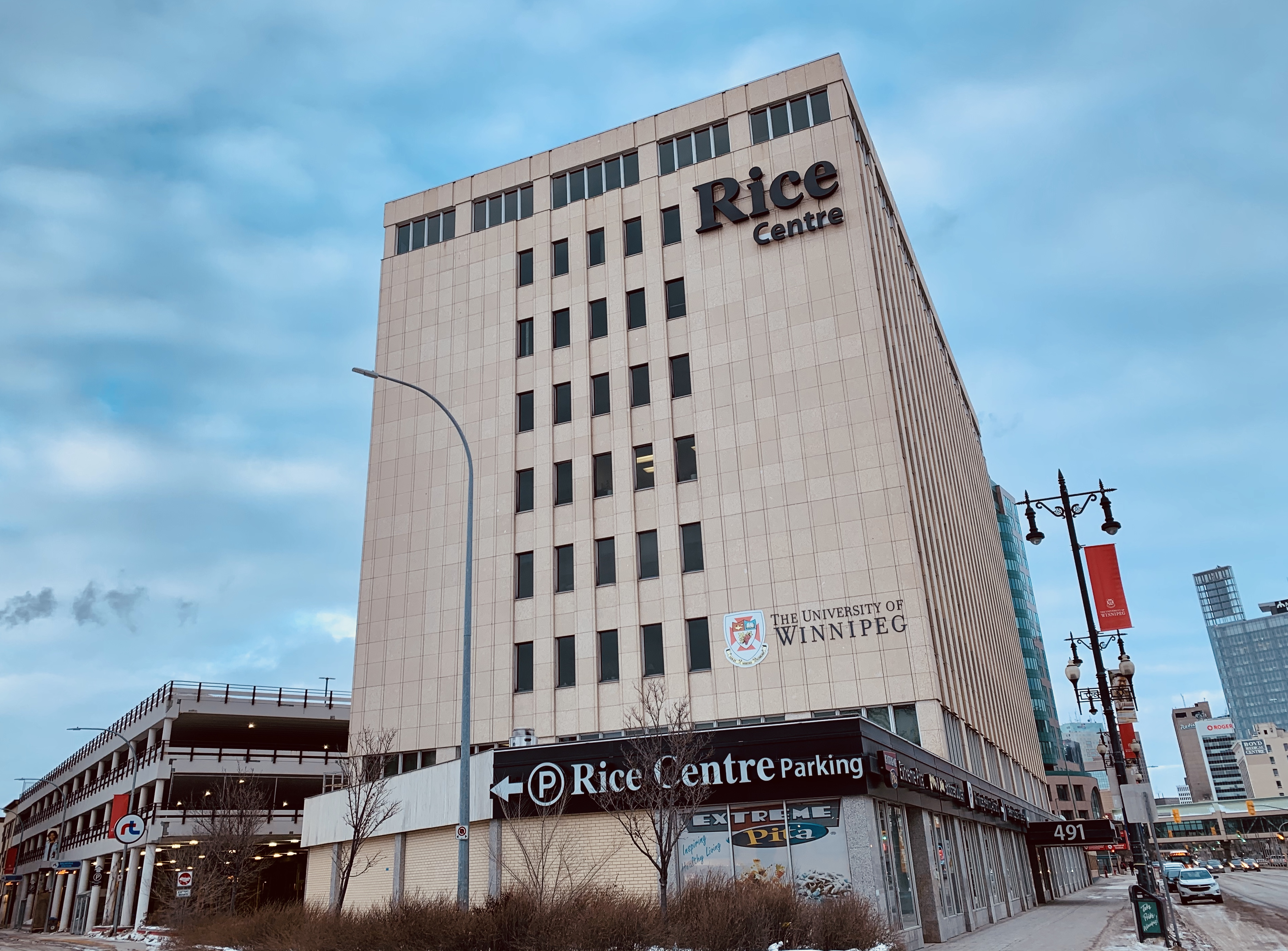 Rice centre is part of the University of Winnipeg. It is home to the university’s administration as well as the student services centre.